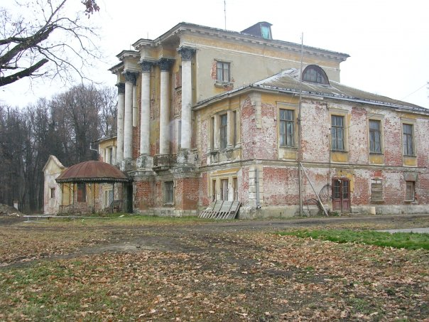 The manor house in Krivyakino, ca. 1870